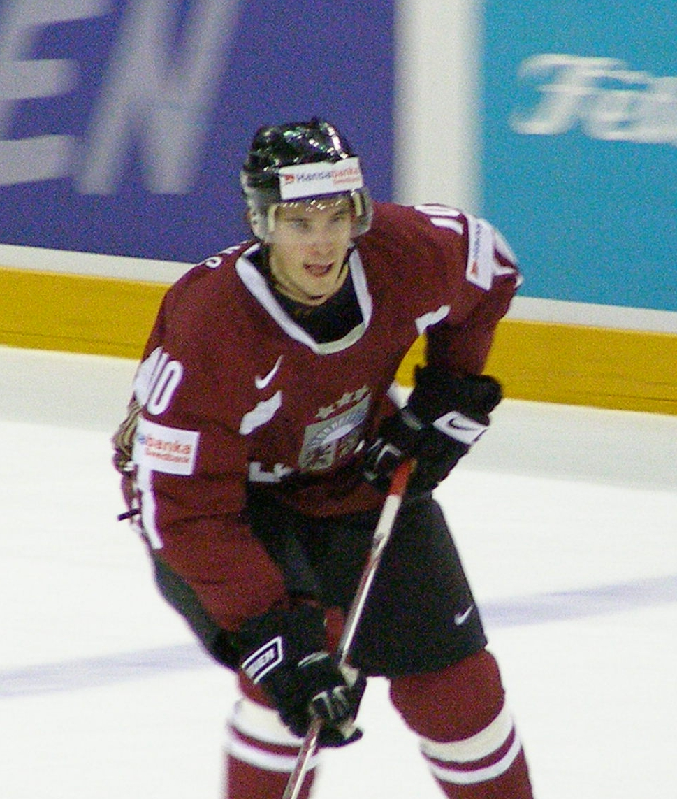 Lauris Dārziņš /Latvia VS USA (IIHF World Hockey Championship in Halifax NS, May 2 2008)/